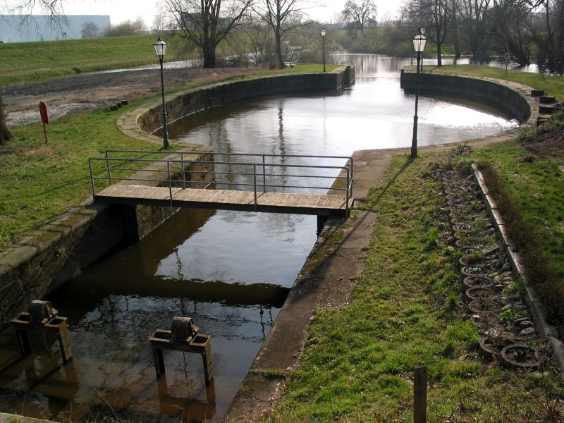 Canal lock Palmschleuse in Lauenburg/Elbe, Schleswig-Holstein, Germany